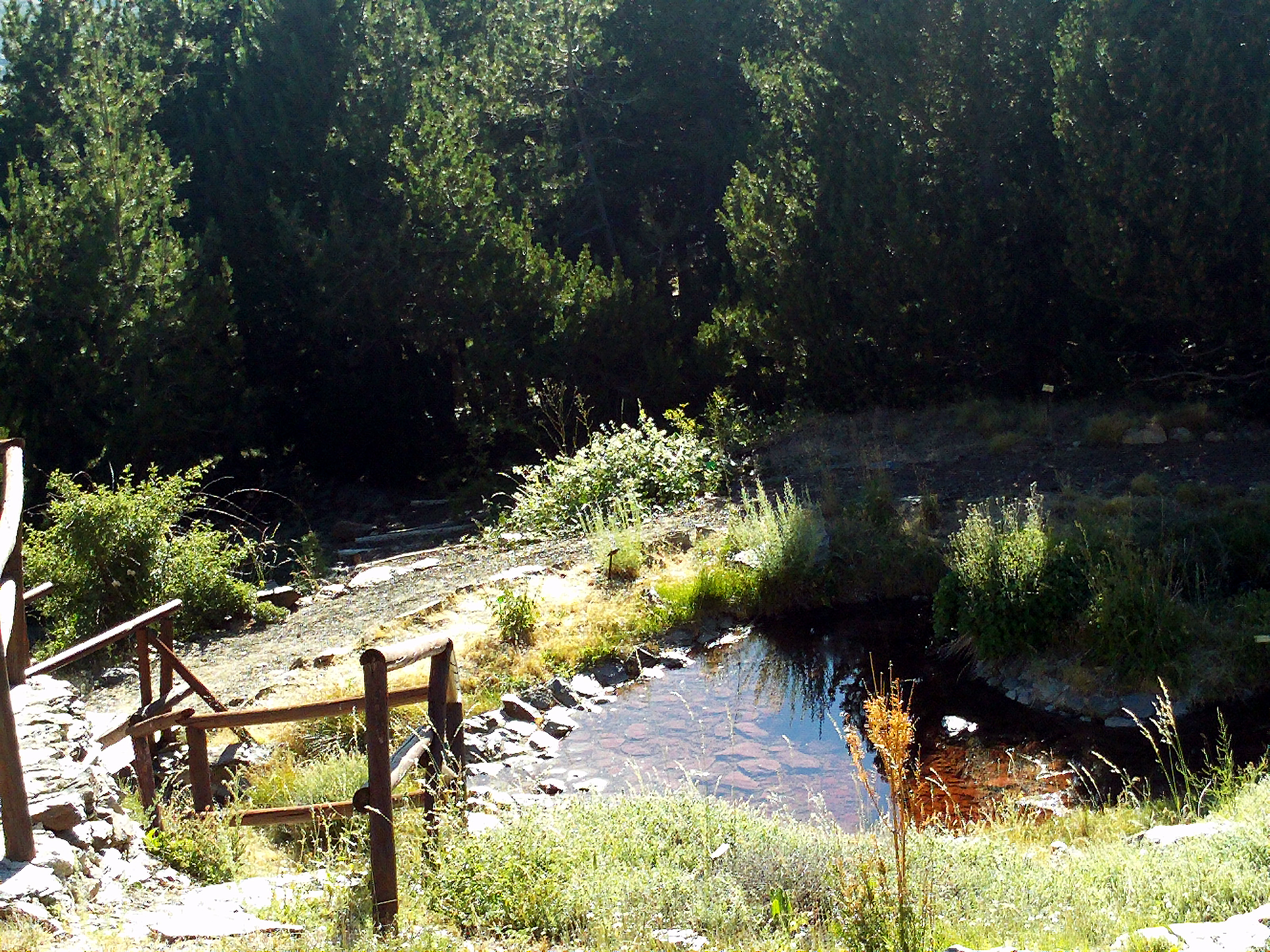 Jardín Botánico de Endemismos de Sierra Nevada Borreguil, Alpin endemic plants of Sierra Nevada, Spain